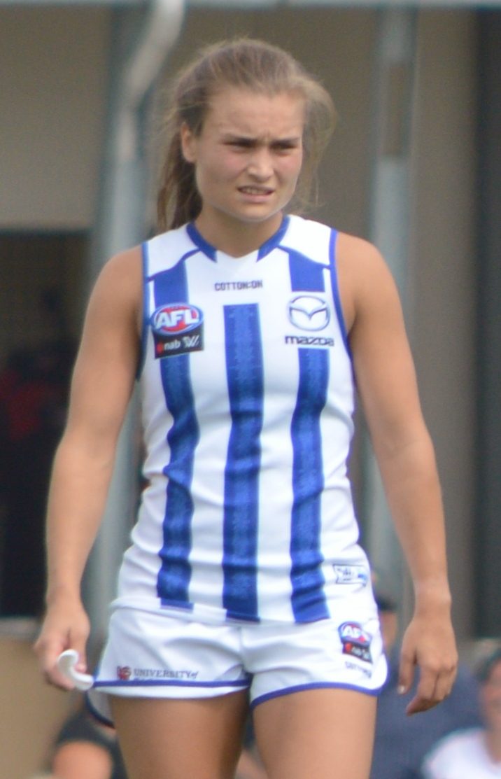 Ashleigh Riddell with North Melbourne during an AFLW practice match against Melbourne at Casey Fields in January 2019.